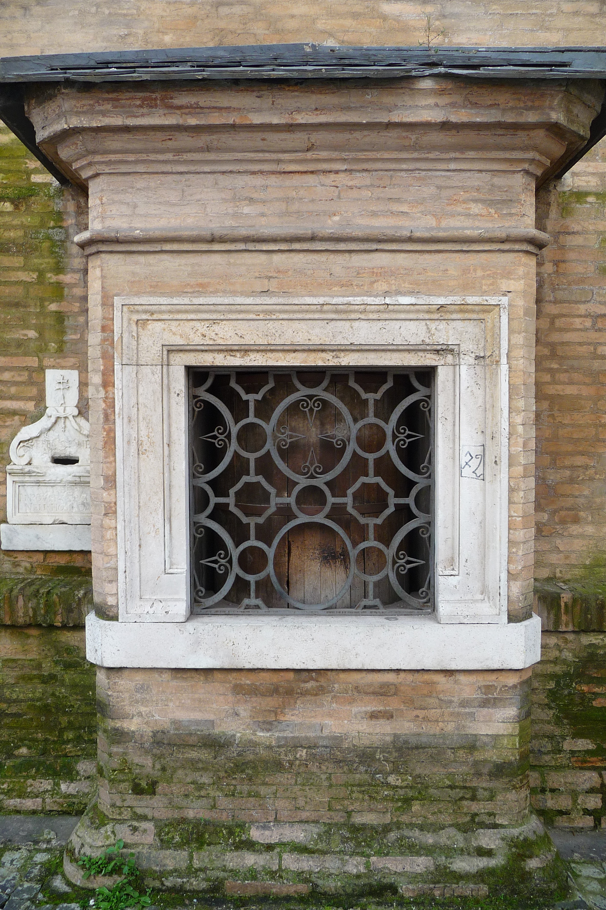 "Ruota degli innocenti" (Baby hatch); Santo Spirito in Sassia (Rome)